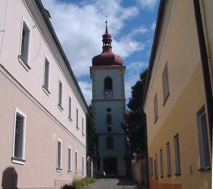 Church of St Bartholomew in Hrádek nad Nisou, Czech Republic